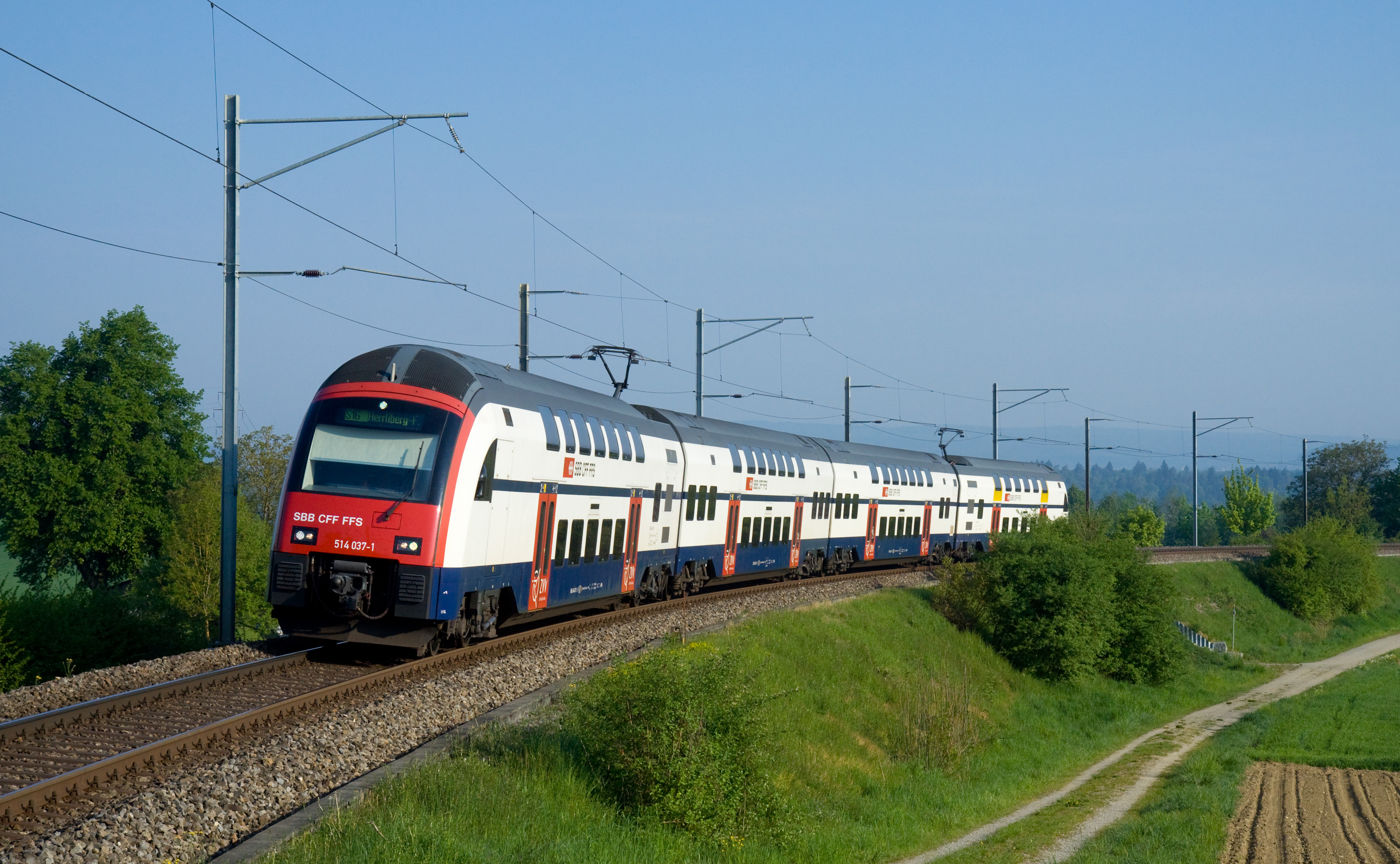 Siemens-built SBB RABe 514 "DTZ" trainset on the S16 service (Thayingen - Herrliberg-Feldmeilen) just outside Andelfingen, Switzerland.